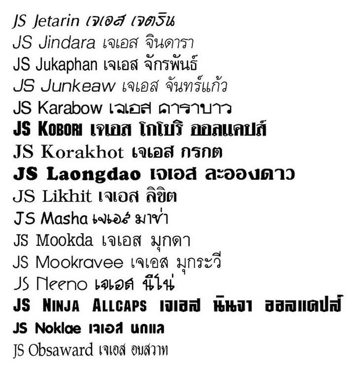 Typeface samples of the "JS" series of Thai fonts by Panutat Tejasen